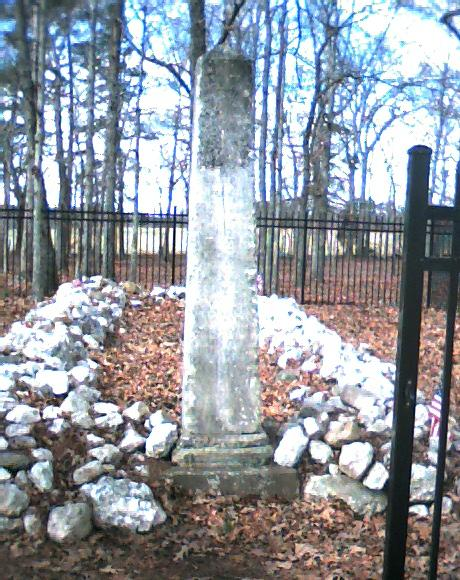 Photo of Monument and Grave at site of Waxhaw Massacre Photo taken en:10 February en:2005, at site of Waxhaw Massacre in Buford, S.C., by the contributor, Alan Light. Public Domain photo - copyright disclaimed. The monument was erected about 1860.